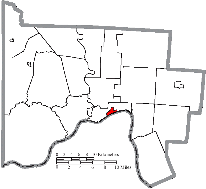 Map of the municipal and township boundaries of Scioto County, Ohio, United States, as of the 2000 census, with the location of the village of New Boston highlighted. Township borders are shown only in unincorporated areas in order to differentiate incorporated and unincorporated areas more clearly.